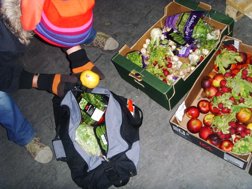 Dumpster diving in Stockholm, Sweden